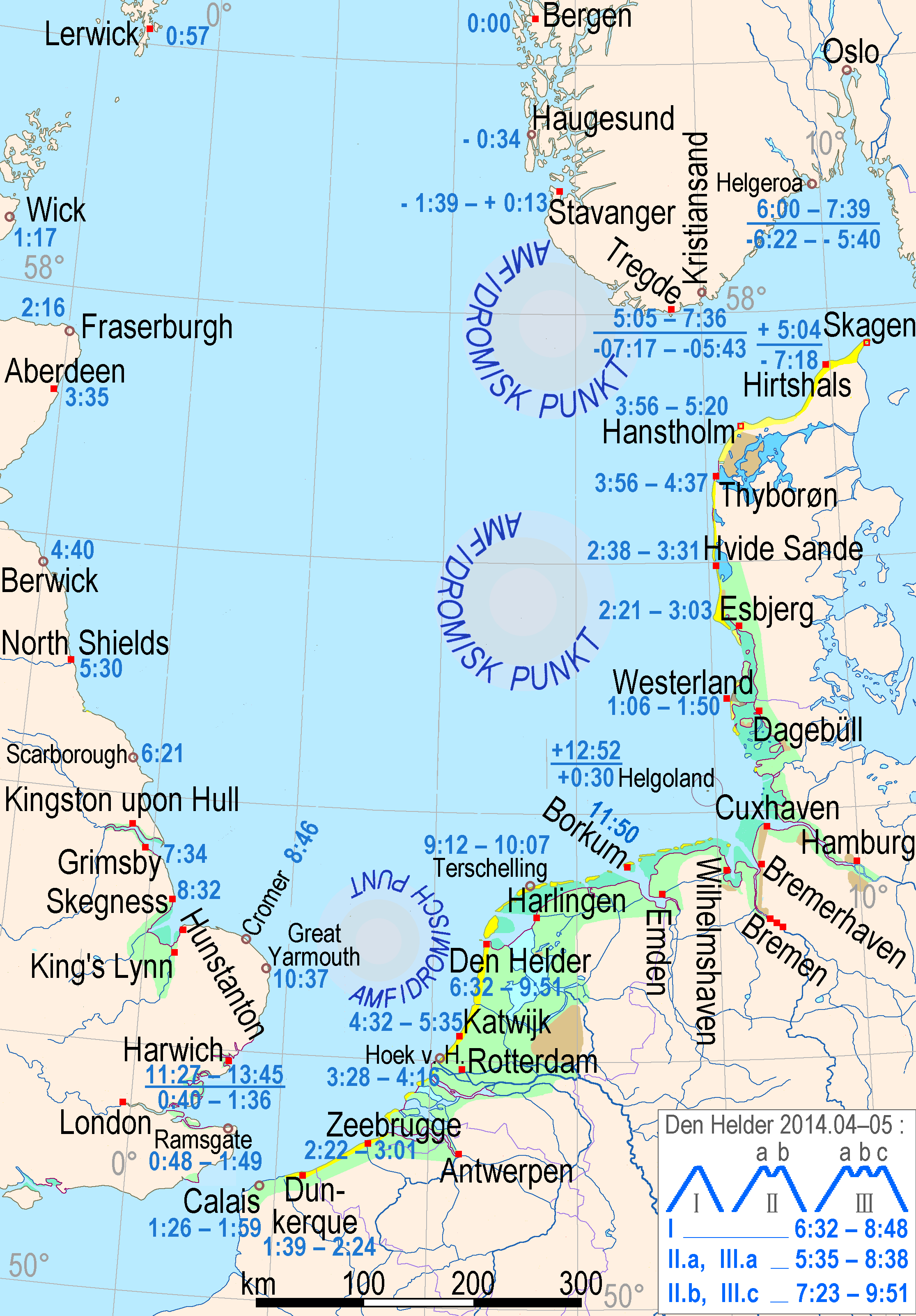 Location map for the list of selected tide ranges on southern North Sea, timelines of the tide waves (three synchronous amphidromic circles), coastal marshes (green), mudflats (jade), lagoons (bright blue), dunes (yellow), sea dikes (purple), moraines near the coast (light brown), rock-based coasts (grayish brown)